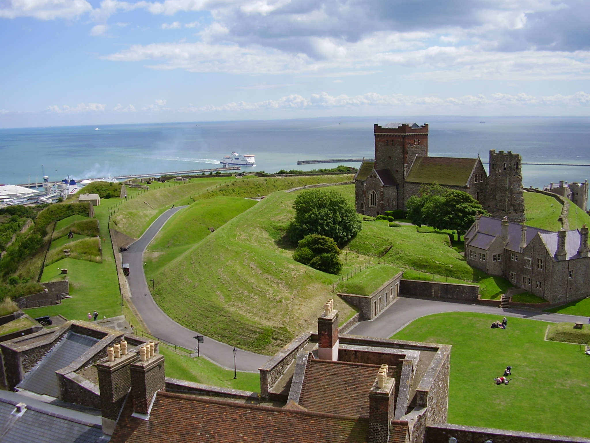 Church of St Mary in Castro in the grounds of Dover Castle, Kent, south coast of England, overlooking the English Channel. The church was built next to the remains of a Roman lighthouse, here seen to the right of the church, which was used as the church's bell-tower. A ship - probably a Channel ferry - can be seen coming into to the port of Dover. (Description by JackyR from local knowledge plus English WP article)